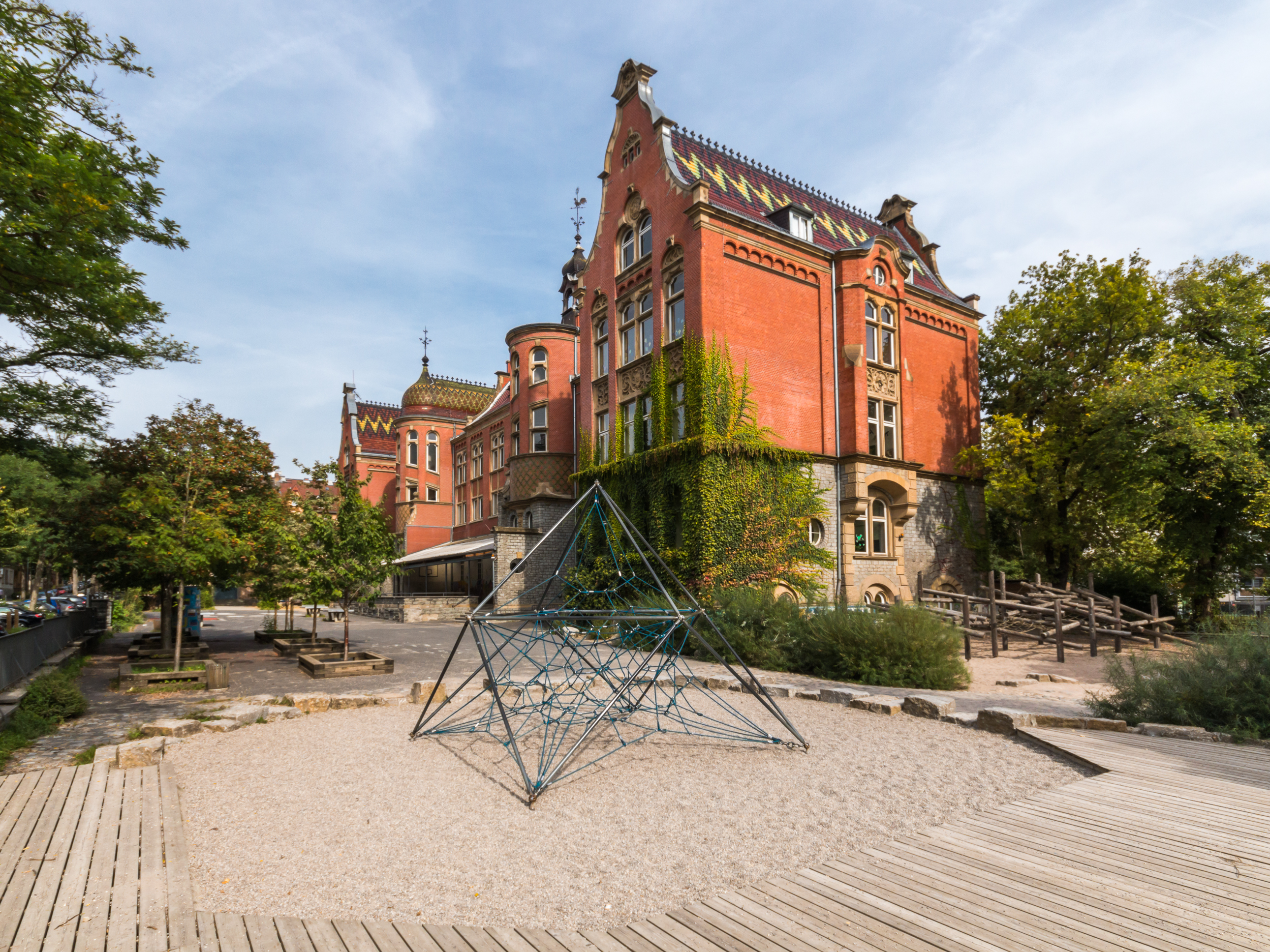 The building of the Blücherschule in Wiesbaden, Germany